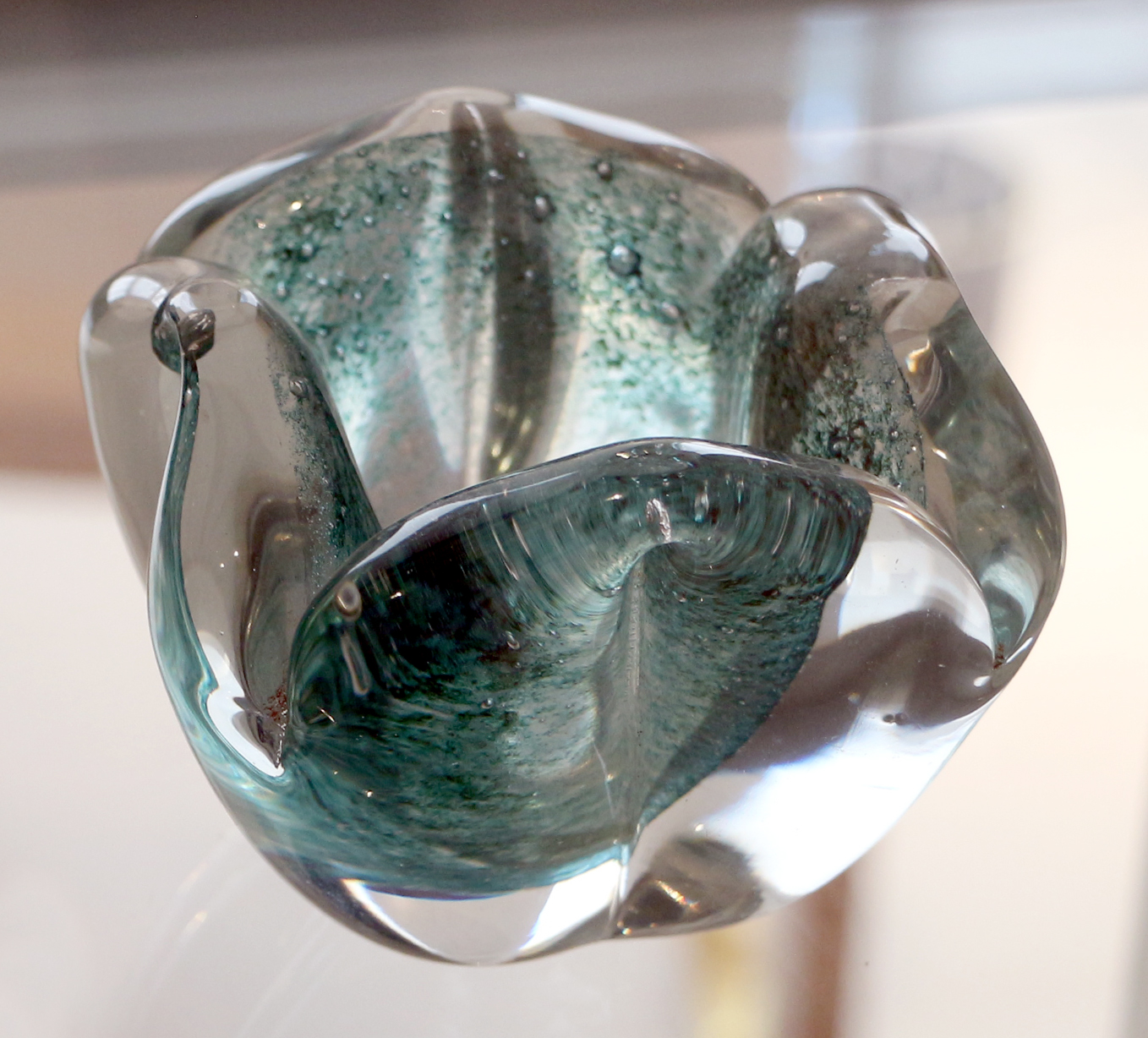 Collections of the Musée d'Art Moderne de la Ville de Paris